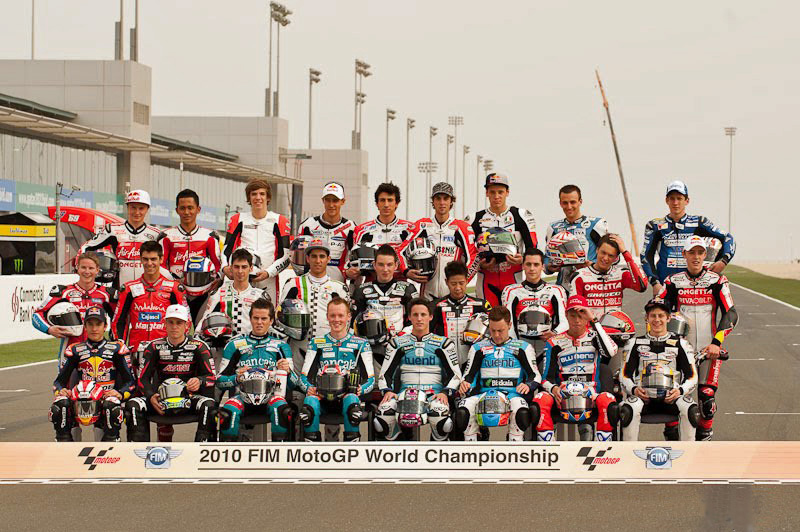 125cc riders 2010 Qatar